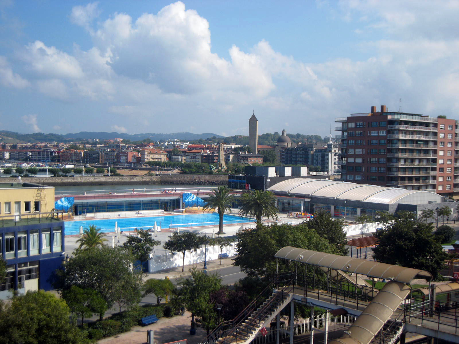 Portugalete Swimming pool